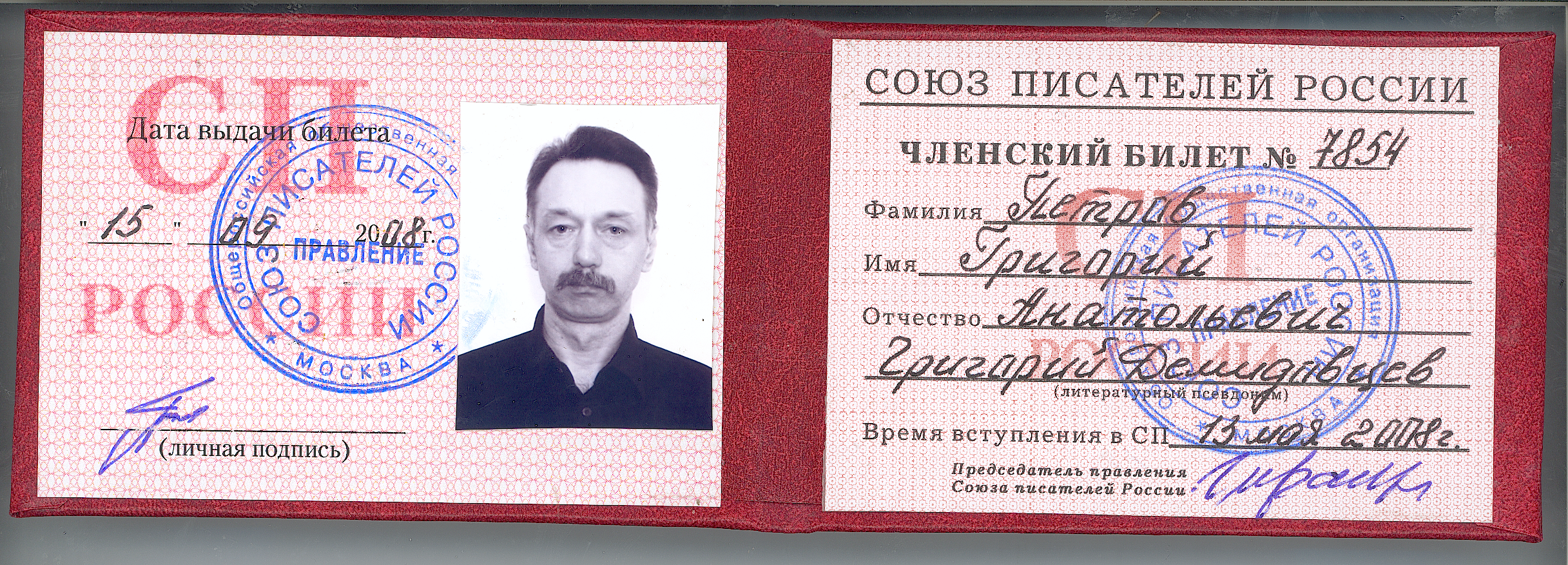 Grigory Demidovtsev. Certificate of membership in the Union of Russian Writers.